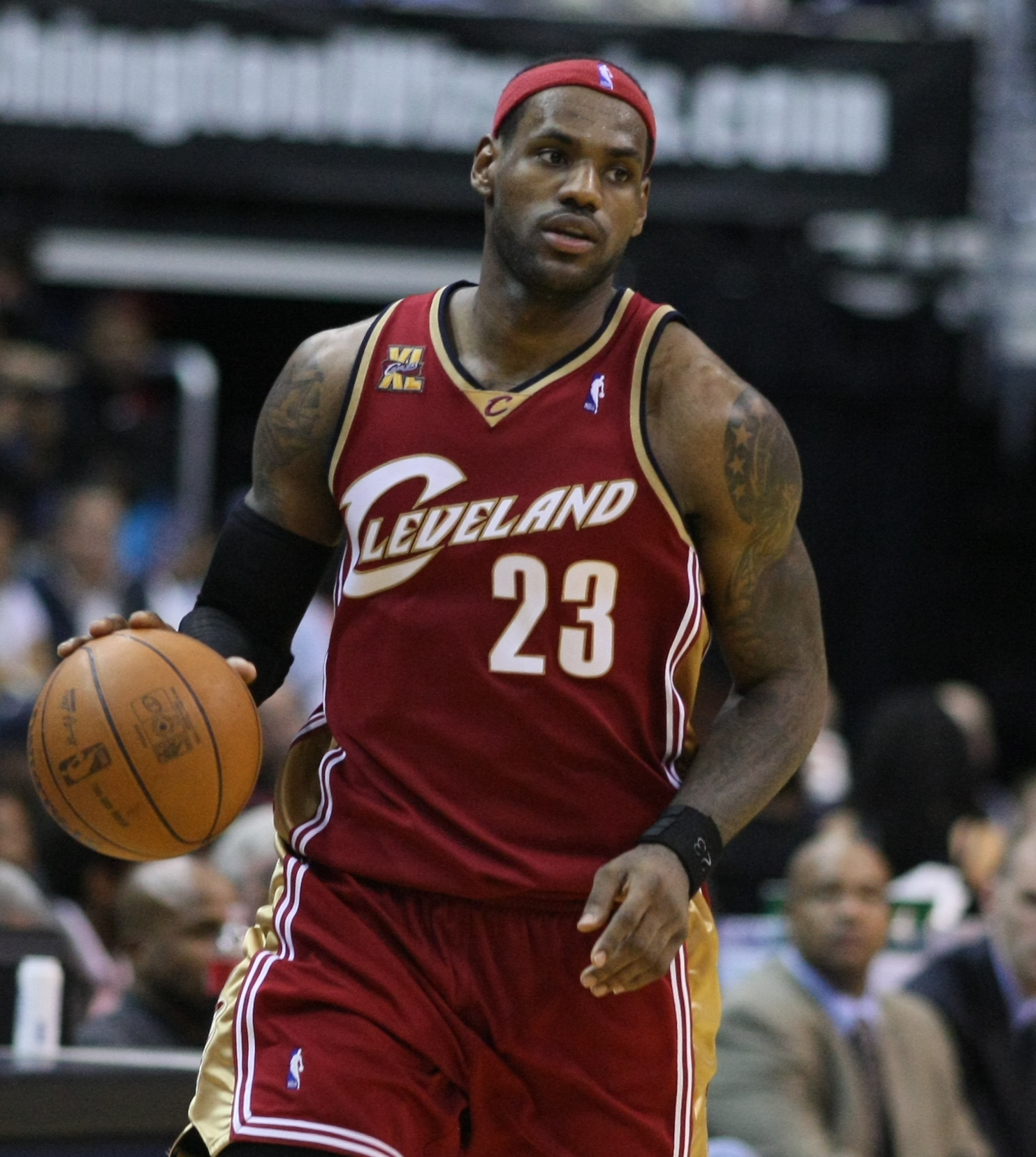 LeBron James. Washington Wizards v/s Cleveland Cavaliers November 18, 2009 at Verizon Center in Washington, D.C.